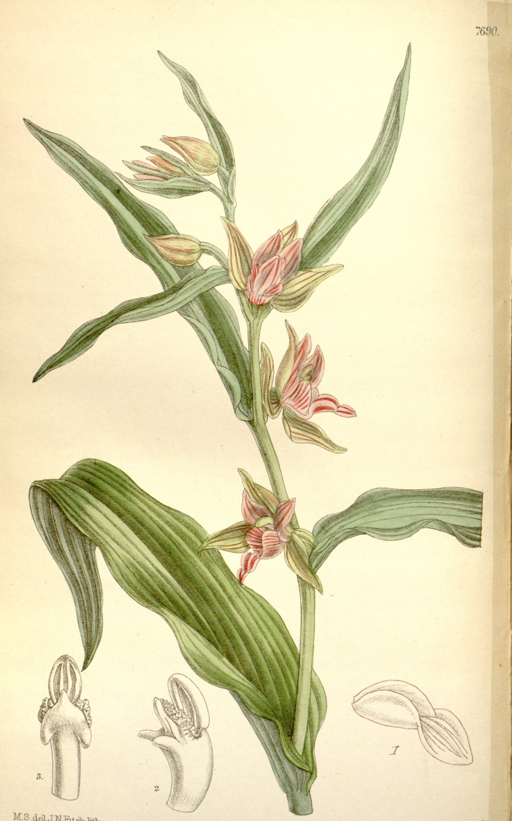 Illustration of Epipactis gigantea